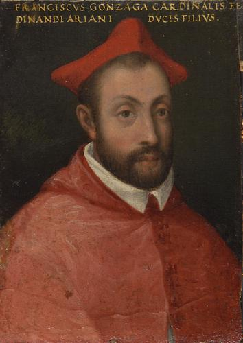 Portrait of Francesco Gonzaga (1538-1566)